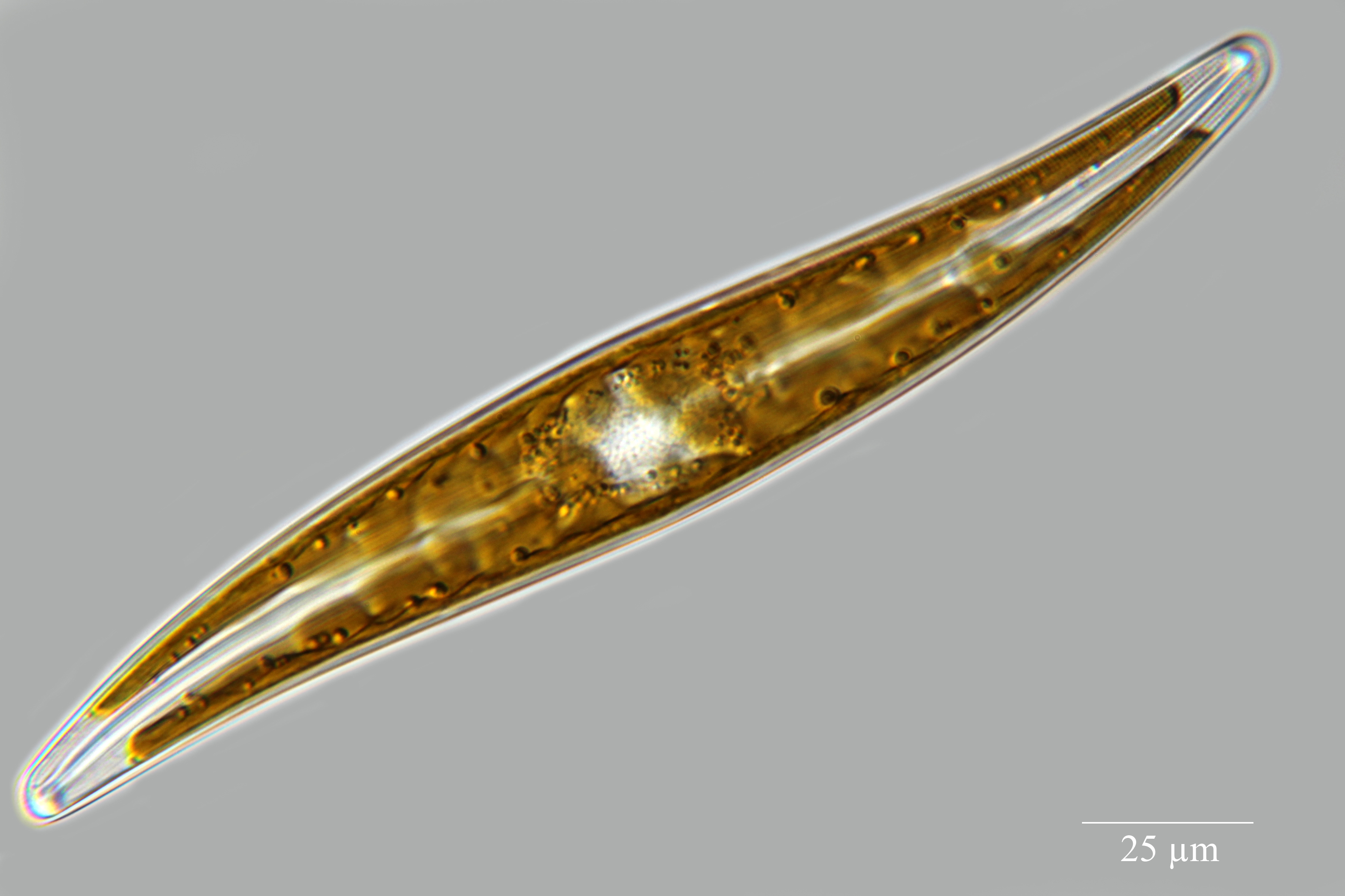 Live Diatom: Gyrosigma acuminatum (Kützing) Rabenhorst. Chromatophore (chloroplast) colored with typical fulvous is clearly visible through the transparent silica frustule. There is a nucleus in the middle of the cell. Light microscopy, differential interference contrast (DIC).